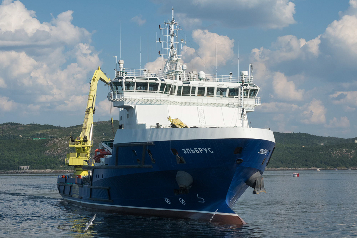 Elbrus logistics ship (project 23120).